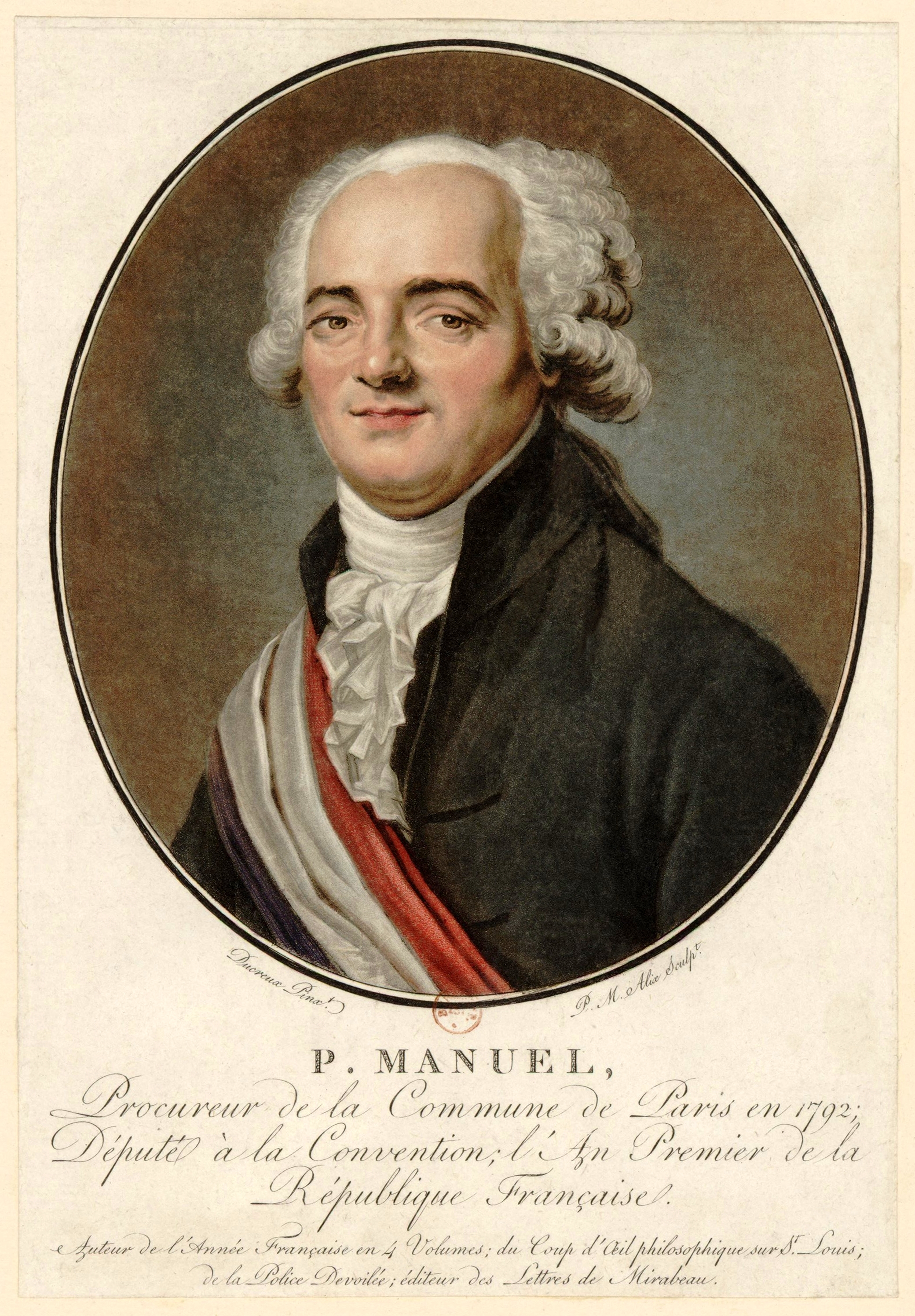 Pierre Louis Manuel (1751 - 1793), french revolutionary.